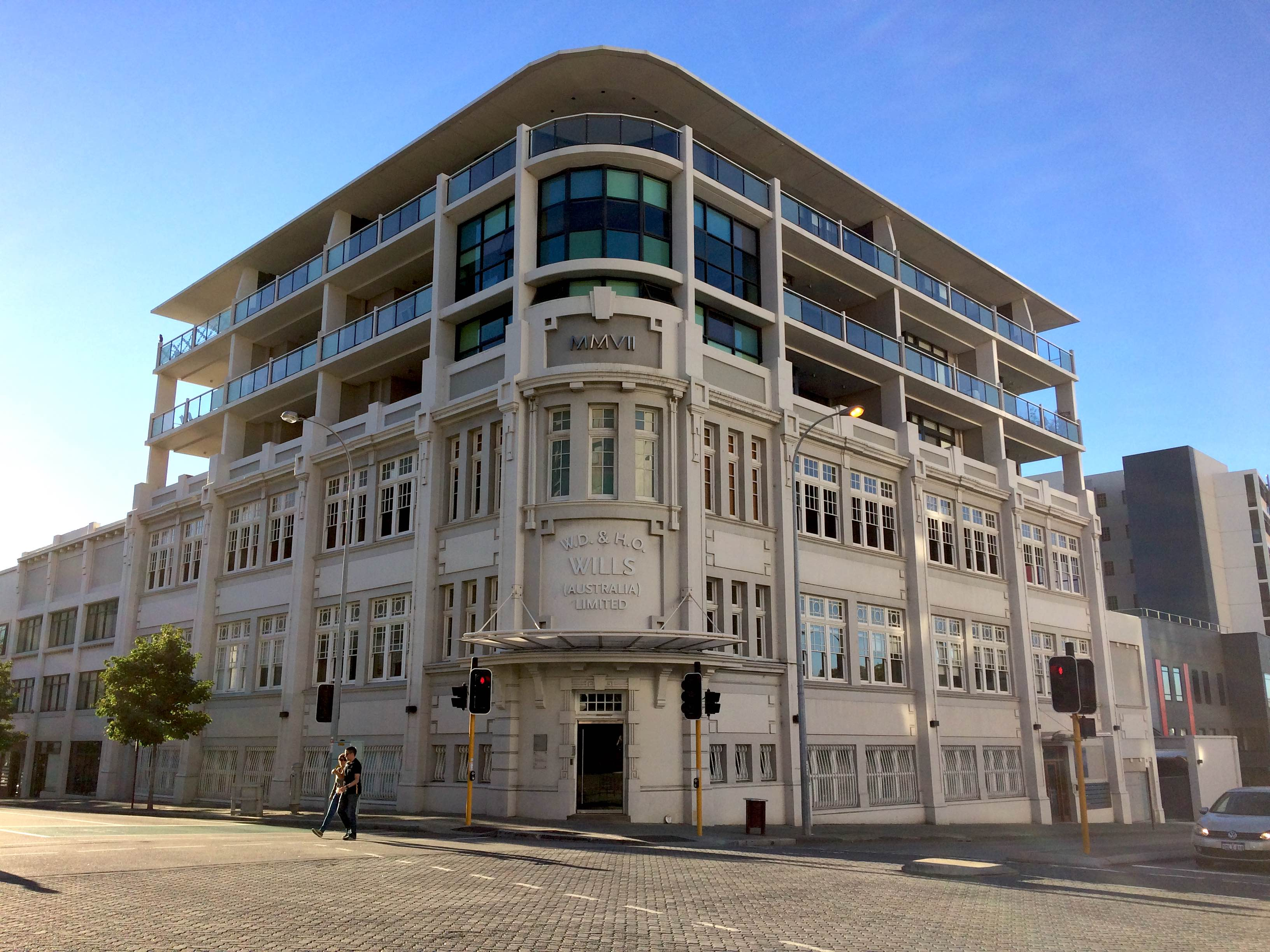 WD and HO Wills Building, corner of Murray and Milligan Streets, Perth.